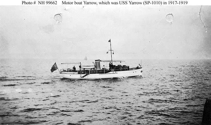 The private motorboat Yarrow underway on the Great Lakes sometime prior to her United States Navy service as the patrol vessel